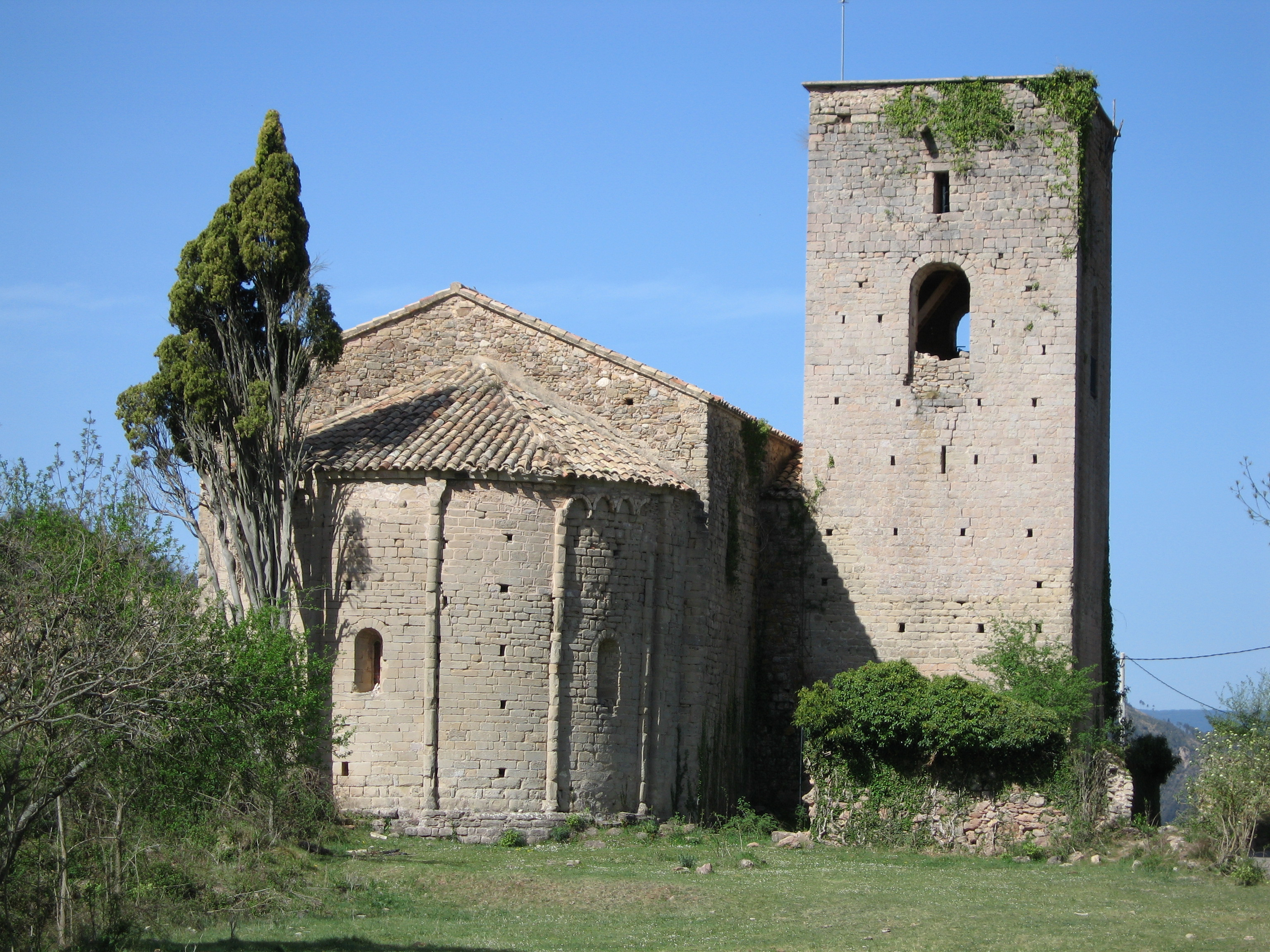 Rear view of Sant Pere de la Portella abbey (La Quar, Berguedà, Catalunya)